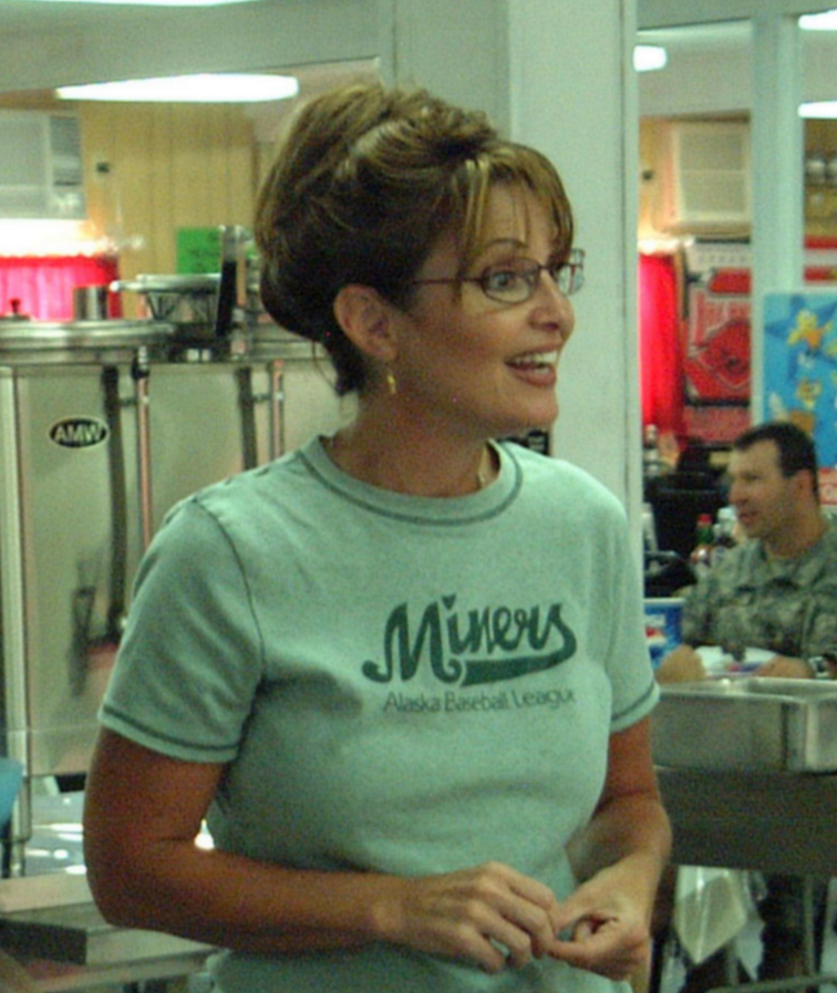 While visiting with Alaska Army National Guard Soldiers at a dining facility in Kuwait , Gov. Palin was asked to address a group of Soldiers who were not from Alaska. She took questions and shared information about our great state. Standing next to Palin is Maj. Simon Brown, executive officer for the 3rd Battalion, 297th Infantry, Alaska Army National Guard. Brown is from Wasilla, Alaska.